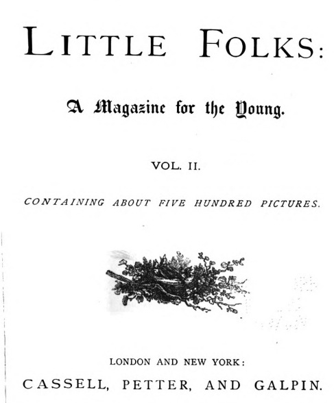 Cover title of Little Folks volume 2, London, 1872.